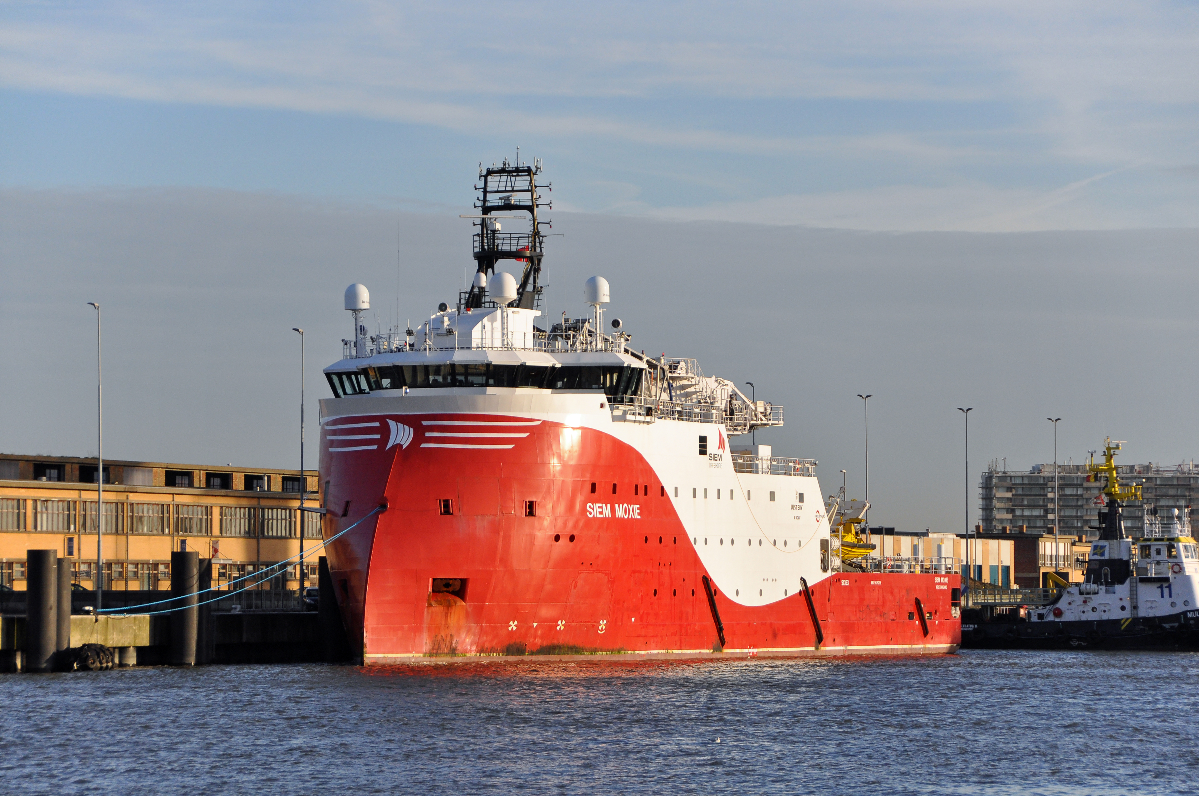 Norwegian offshore support vessel Siem Moxie in Ostend harbour (Belgium)